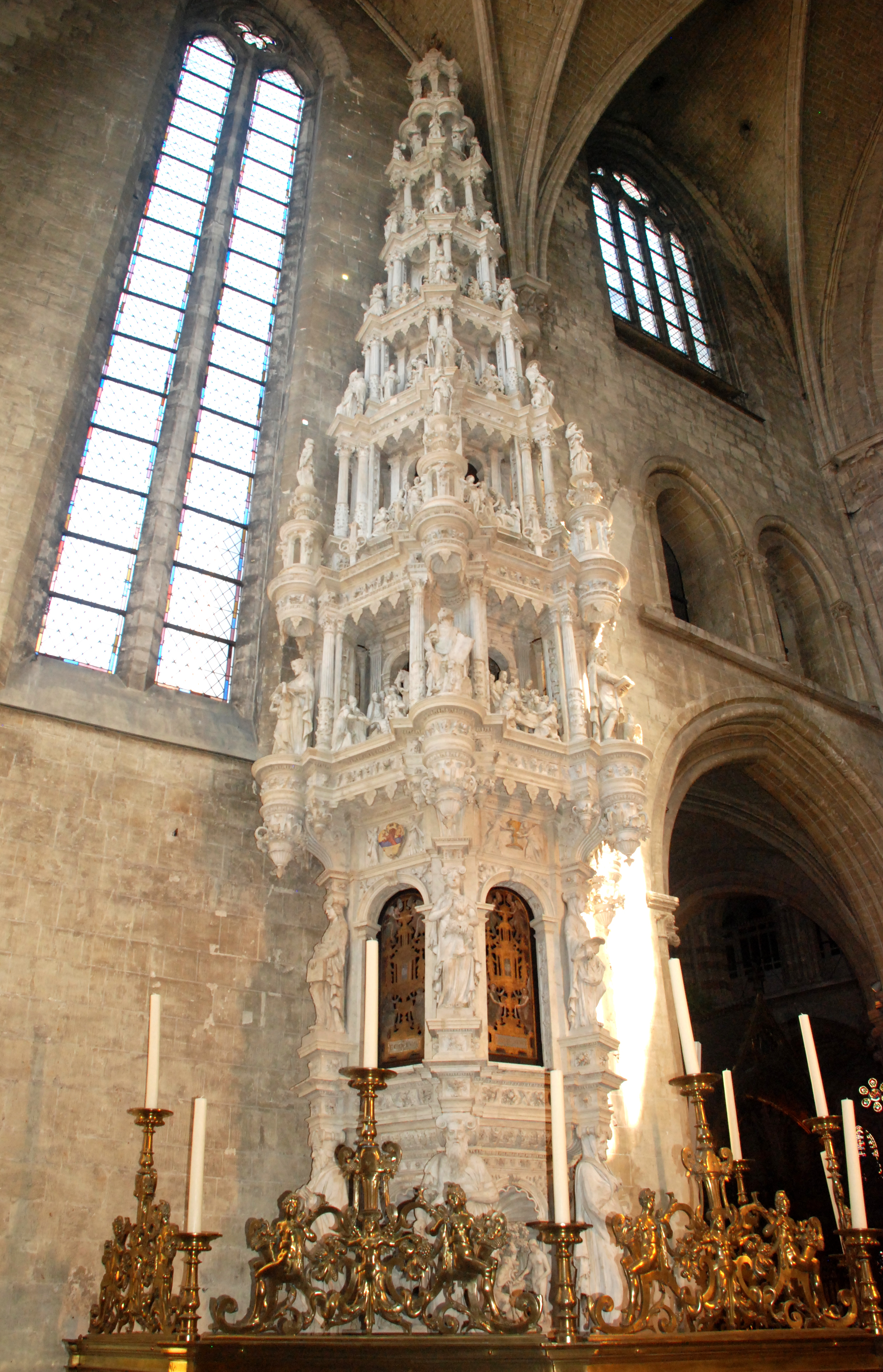 Tabernacle designed by Cornelis Floris, in the St. Leonard's Church, Zoutleeuw, Belgium